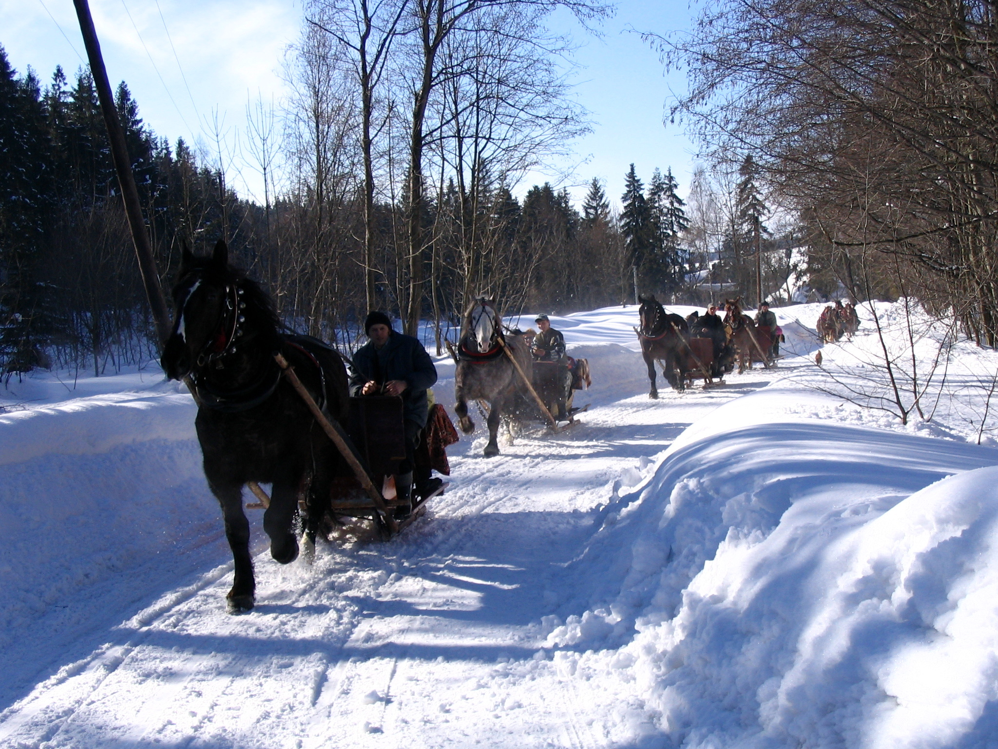 kulig in Gorce